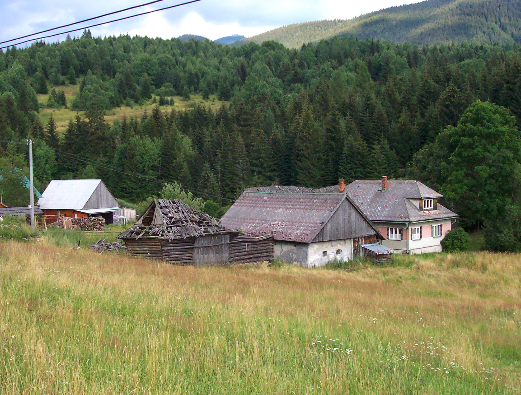 Huty village. Orava, Slovakia